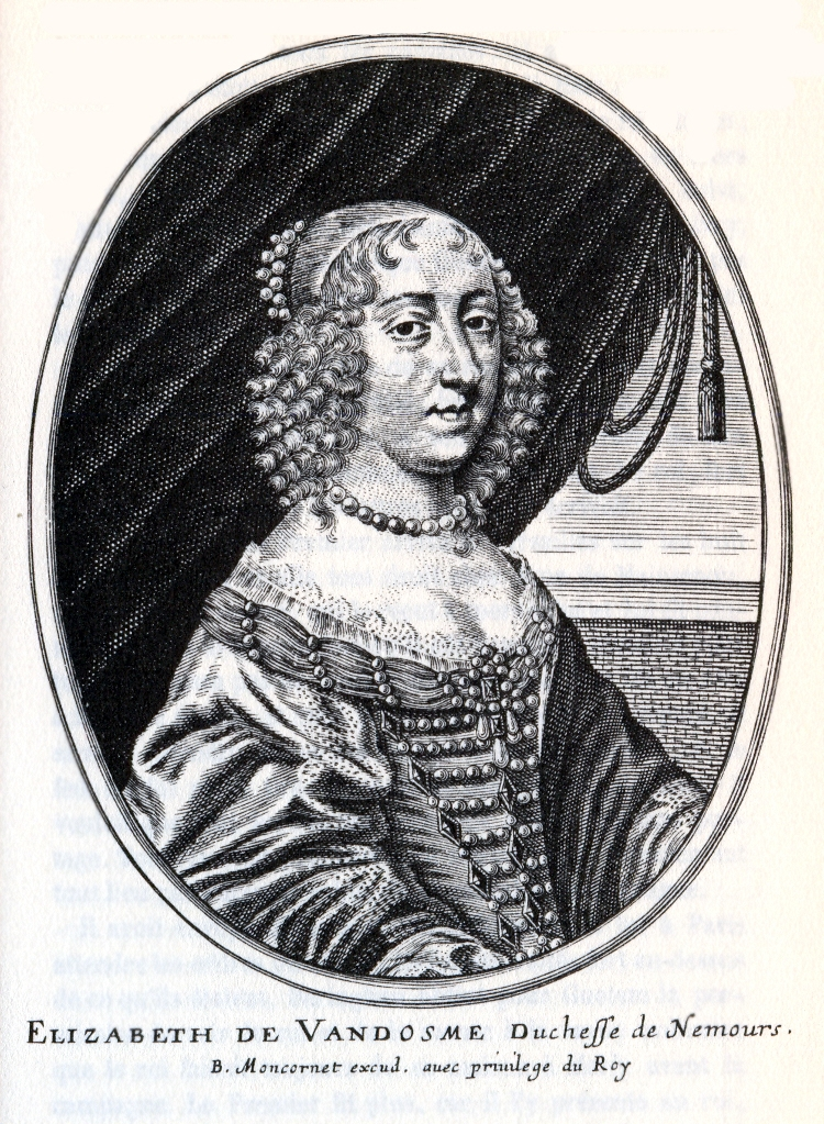 Élisabeth de Bourbon, Duchess of Nemours by B Moncornet